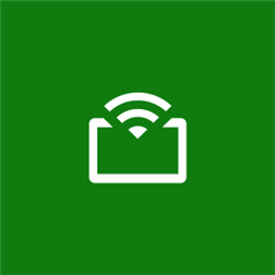 Logo of the next generation Xbox SmartGlass app for iOS, Android, and Windows